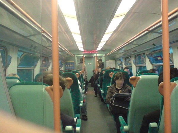 Inside a Class 334 Alstom Juniper. Photo by Doctor Flange.